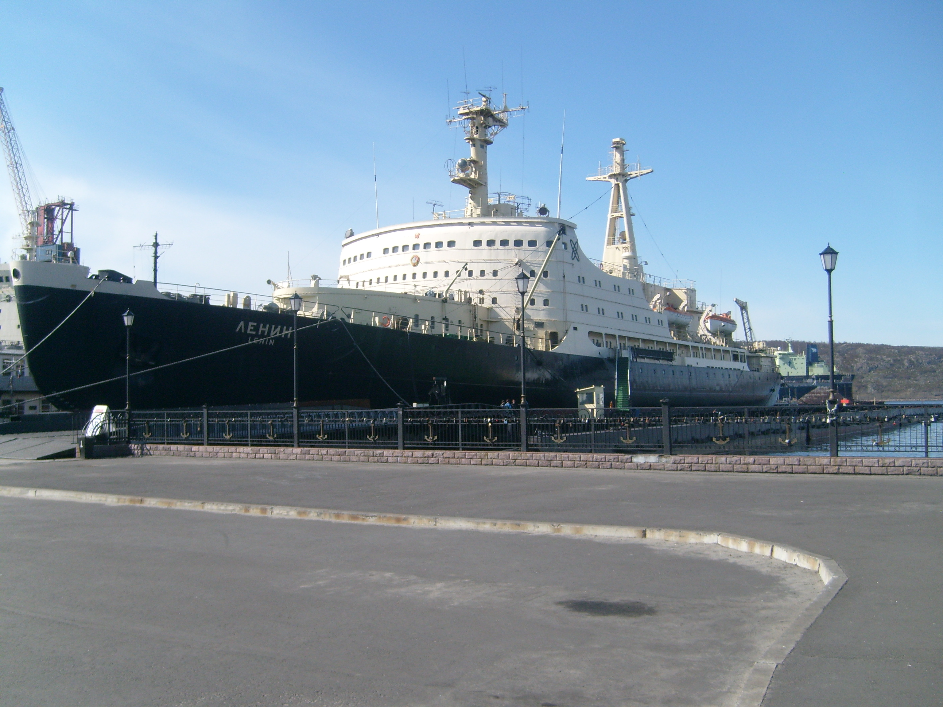 Nuclear icebreaker Lenin